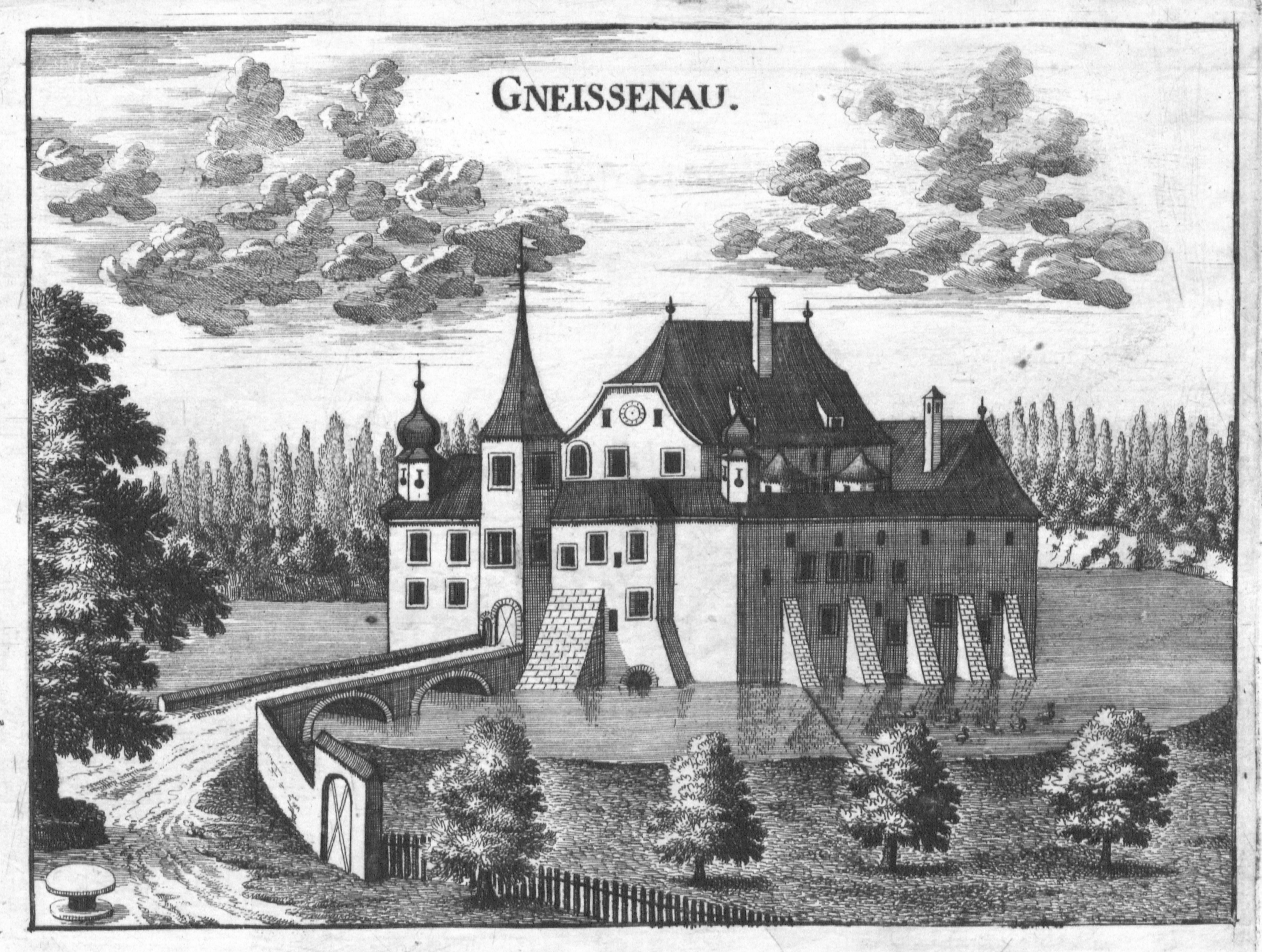 Engraving, view of Gneisenau castle, Upper Austria